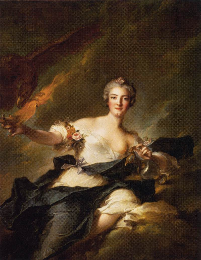 Portrait of Anne Josèphe Bonnier (1718-1787), wife of Michel Ferdinand d'Albert